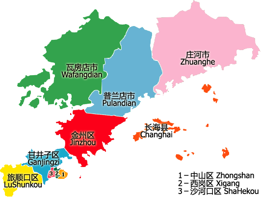 Subdivision of Dalian